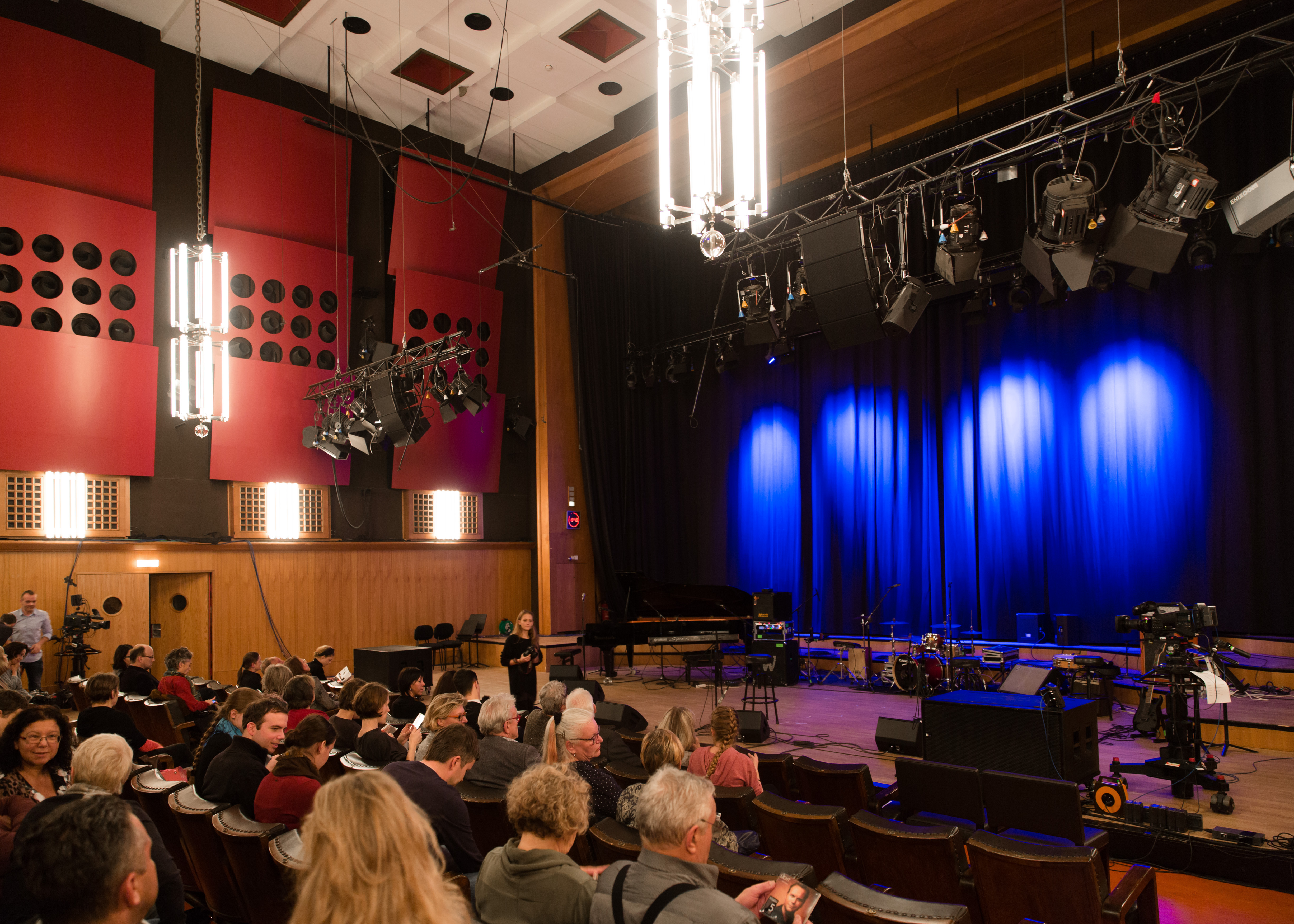 Radiokulturhaus/Funkhaus Wien in Vienna, Austria, during the charity event An Evening for Licht ins Dunkel 2015.